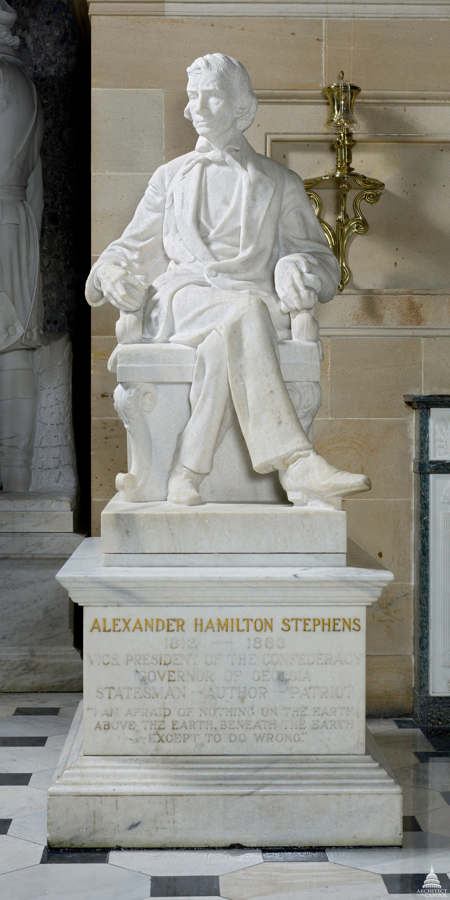 Alexander Hamilton Stephens (1812-1883) Georgia Marble by Gutzon Borglum Given in 1927 National Statuary Hall U.S. Capitol This official Architect of the Capitol photograph is being made available for educational, scholarly, news or personal purposes (not advertising or any other commercial use). When any of these images is used the photographic credit line should read “Architect of the Capitol.” These images may not be used in any way that would imply endorsement by the Architect of the Capitol or the United States Congress of a product, service or point of view. For more information visit